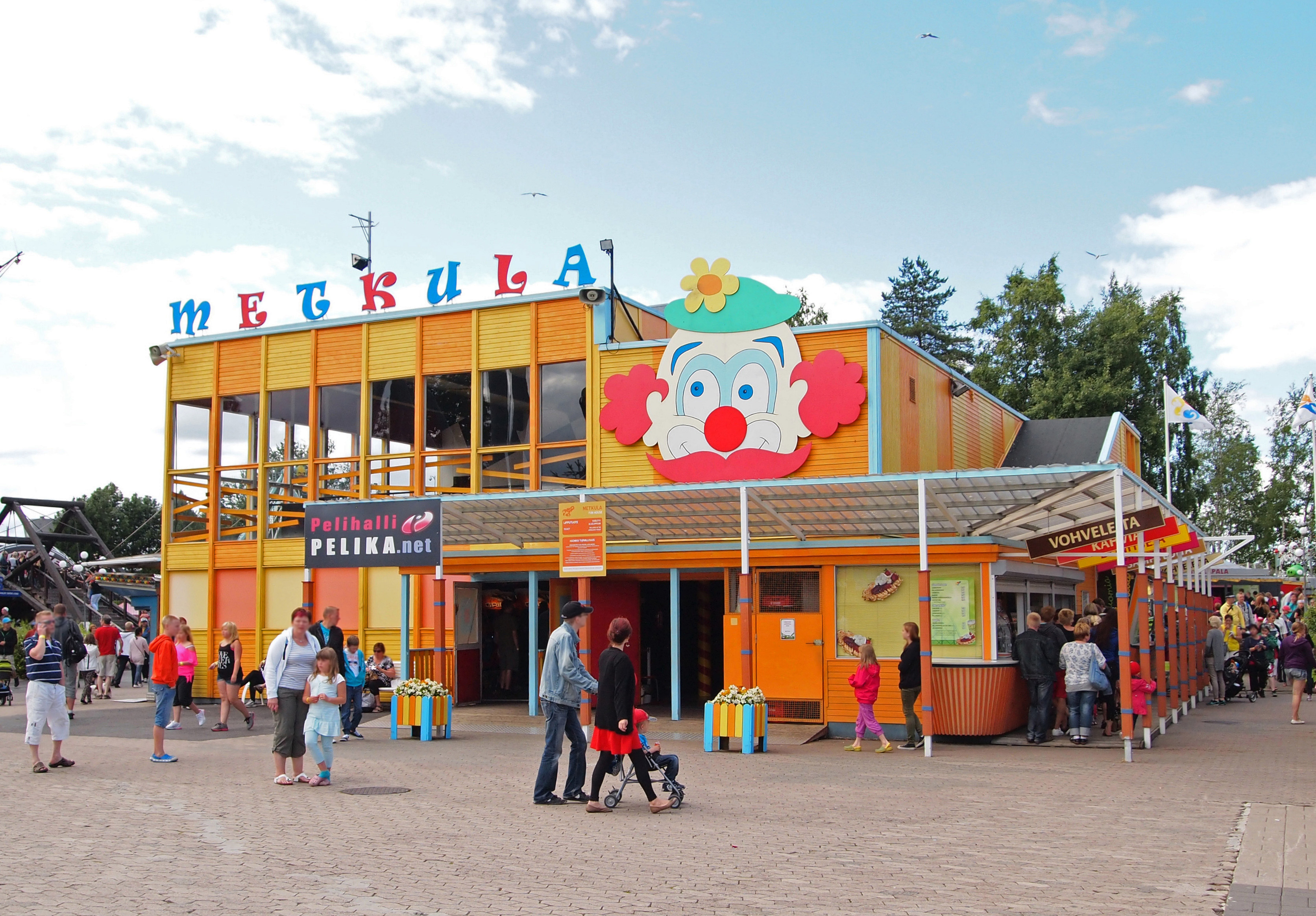 Building Metkula in Särkänniemi amusement park, Tampere. This photograph was taken with an Olympus E-PL1